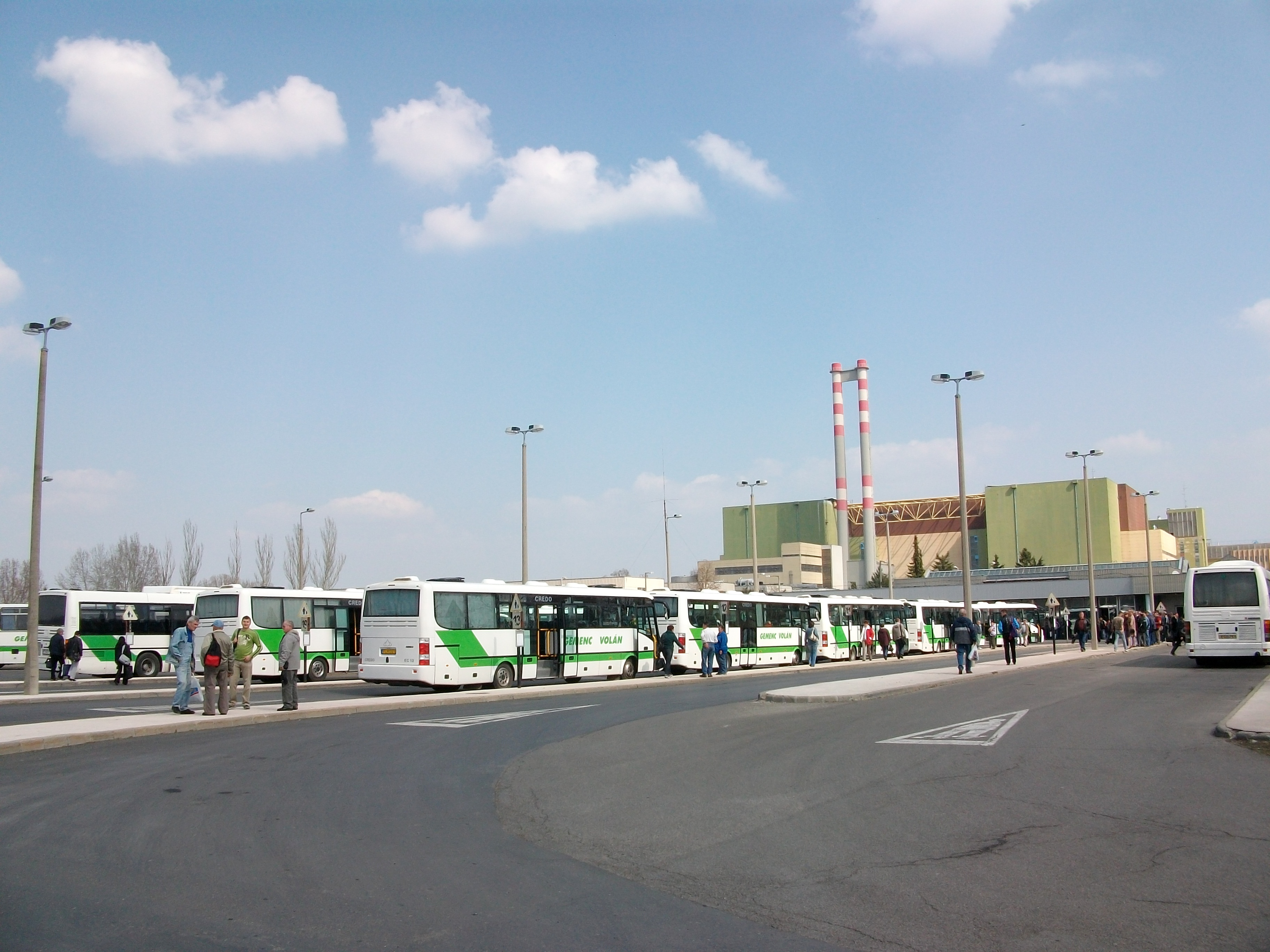 Bus station of the Paks Nuclear Power Plant